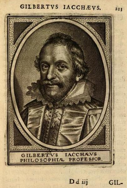 Illustrium Hollandiae Westfrisiae ordinum alma academia Leidensis Dedication portraits and portraits of Leiden professors, along with 4 scenes of university, library, anatomical room & hortus